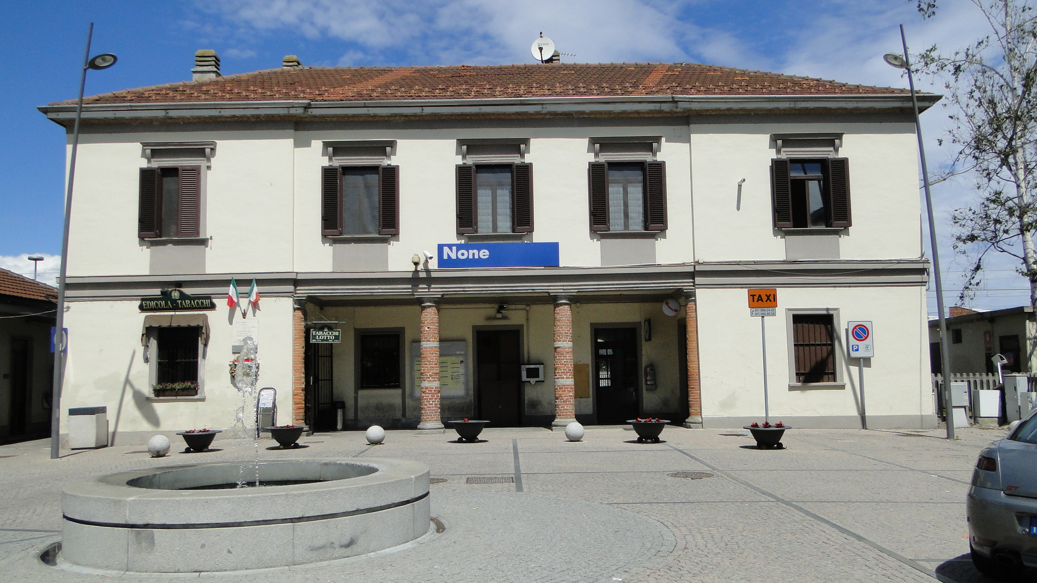 Railroad Station of None (Italy)